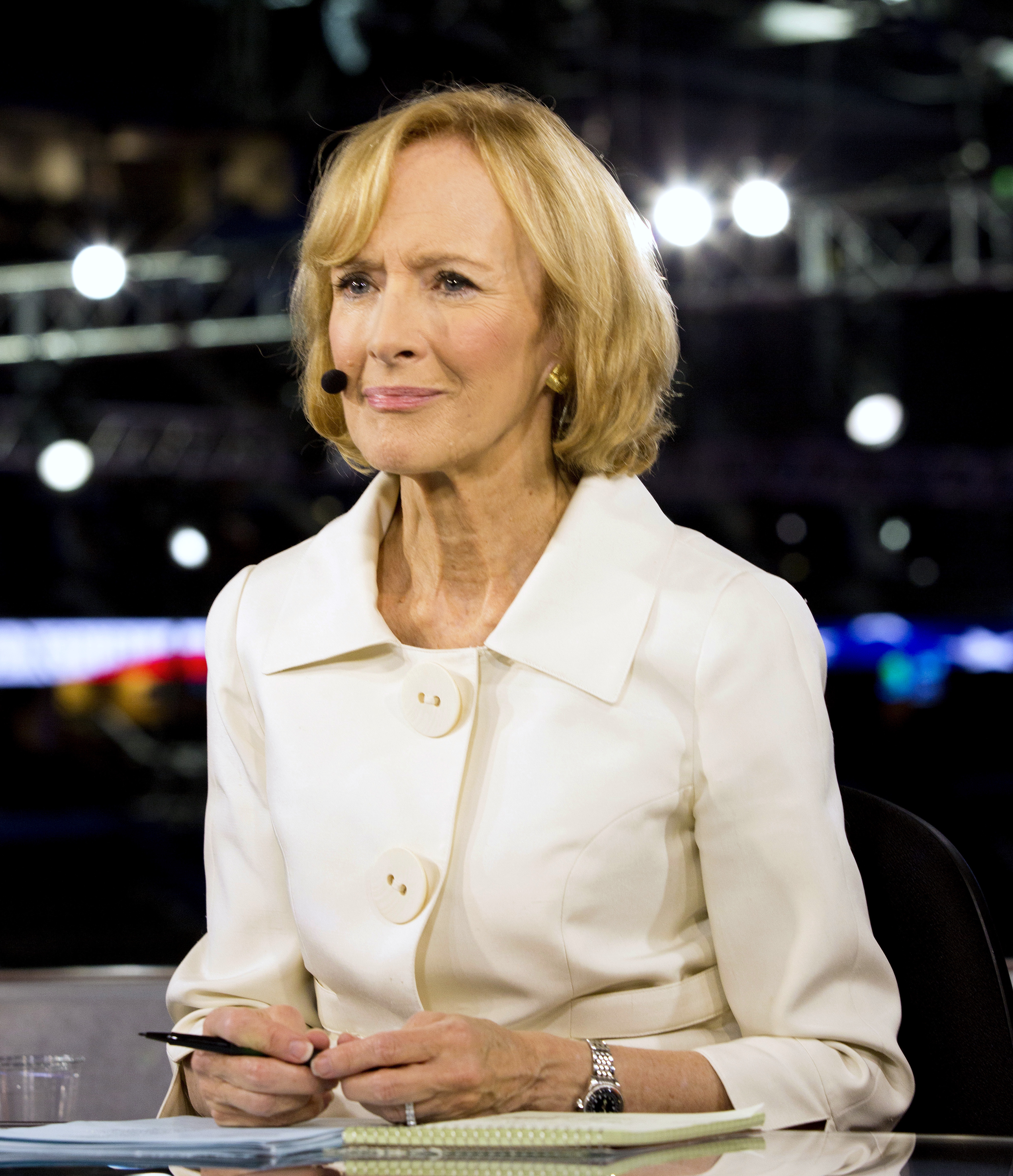 Judy Woodruff at the PBS NewsHour anchor desk set up at the 2012 Republican National Convention